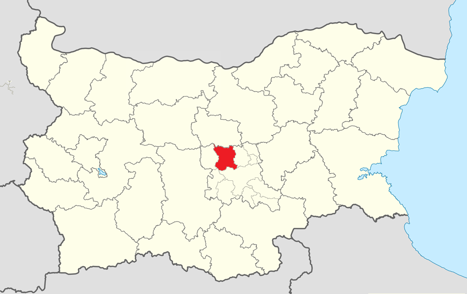 Location map of Kazanlak Municipality within Bulgaria and Stara Zagora Province